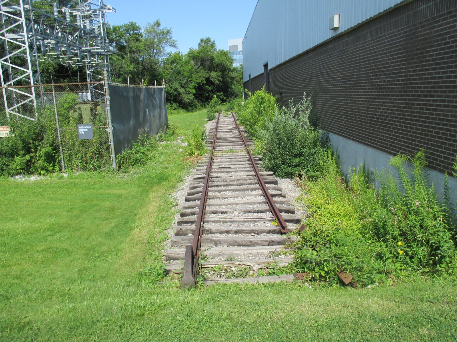 A warehouse siding that used to be served by the Oriole Spur prior to its abandonment in 1999. In 2017, the siding still had much of its track still in place. The track stops are about 45 metres east of the spur's former ROW.